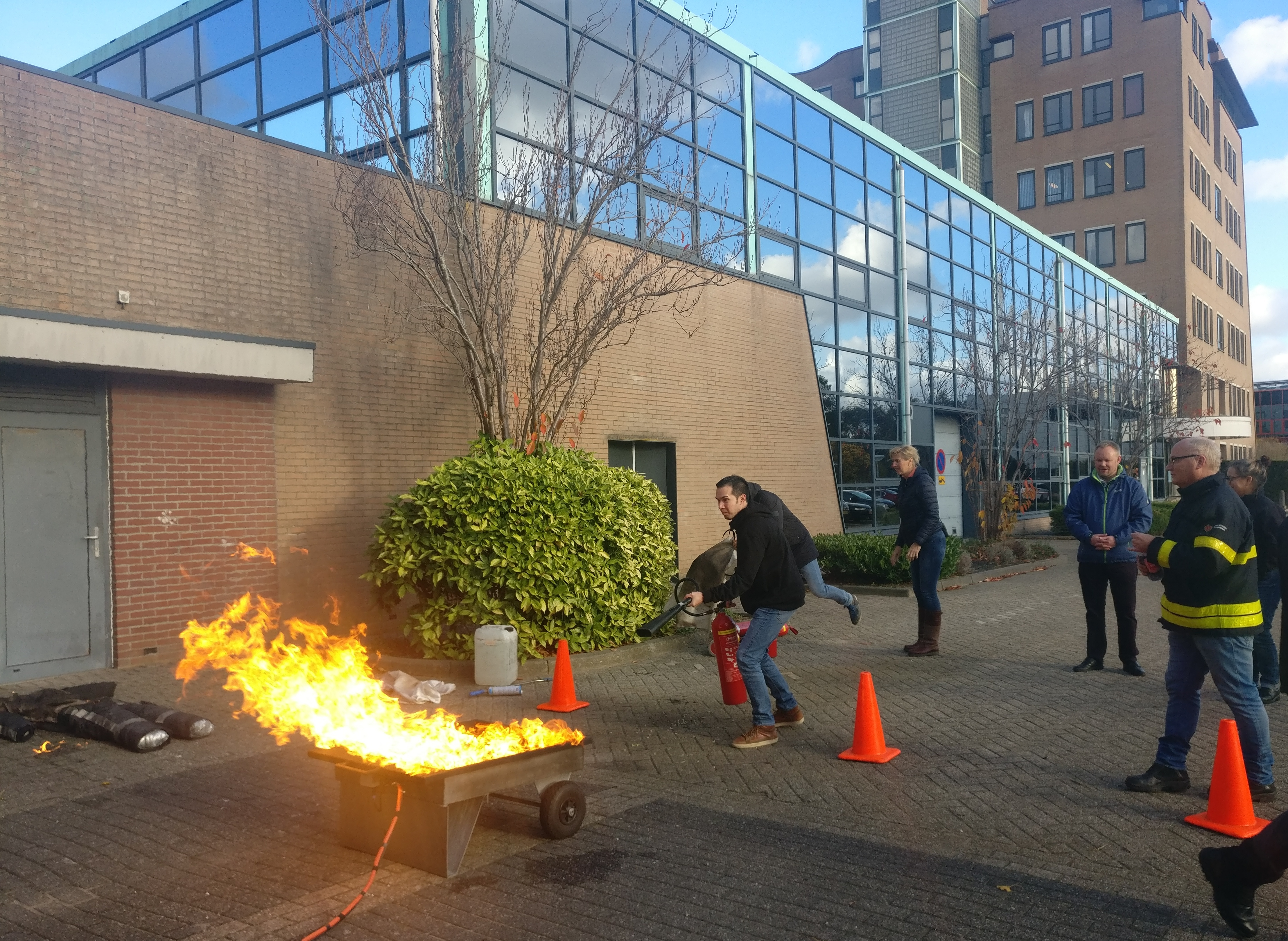 Training for the company safety aids